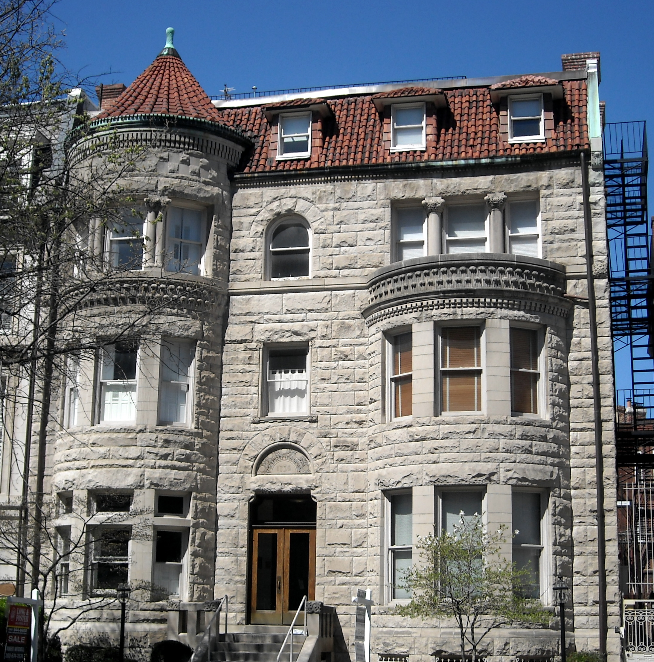 The Richardsonian Romanesque building located at 1730 New Hampshire Avenue, NW in the Dupont Circle neighborhood of Washington Constructed in 1893 as a private residence, the building currently serves as a condominium and is a contributing property to the Dupont Circle Historic District. Notable past owners include Congressman Joseph Wheeler, Crosby Stuart Noyes, Theodore Williams Noyes, and the American Anthropological Association.